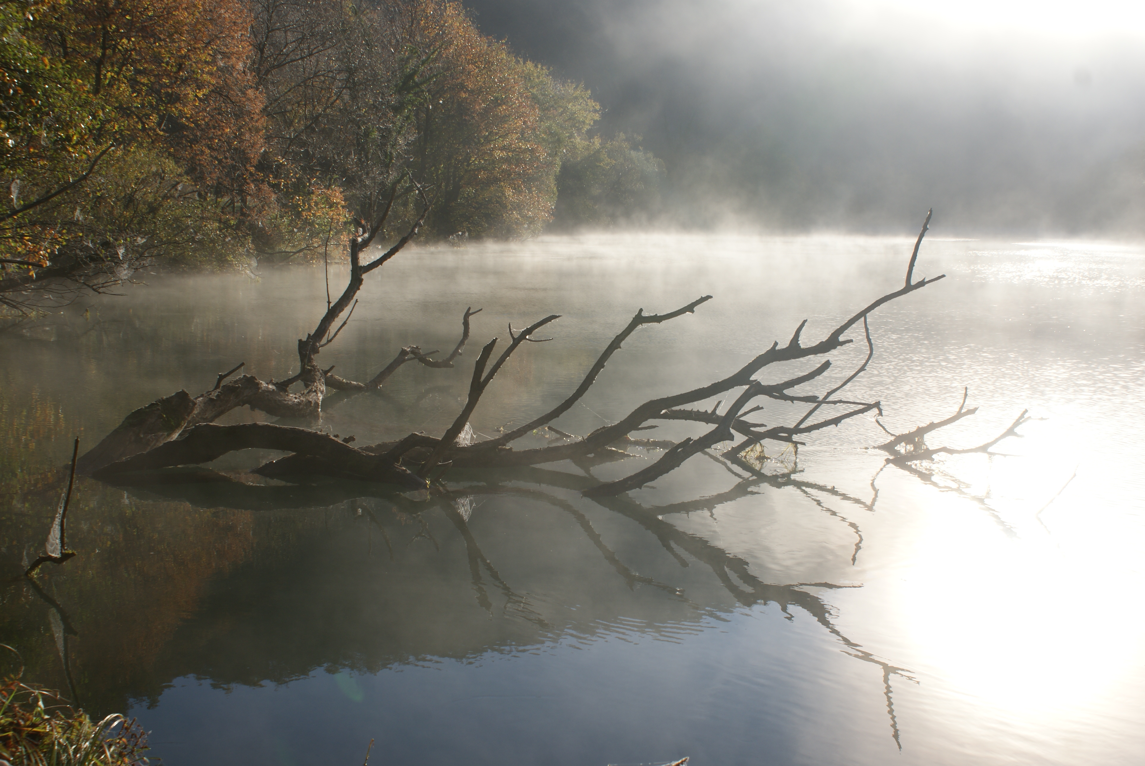 RIJEKA UNA